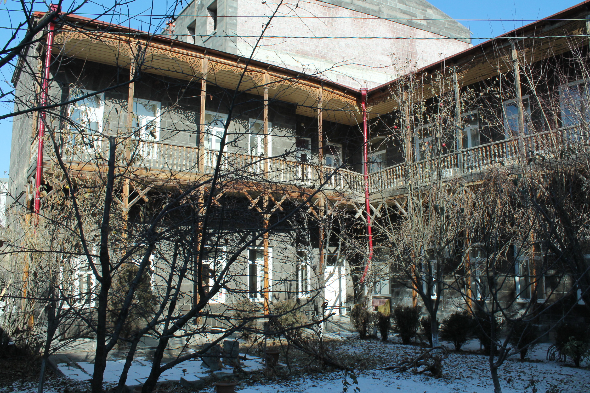 The Gallery of Mariam and Eranuhi Aslamazyan Sisters in winter